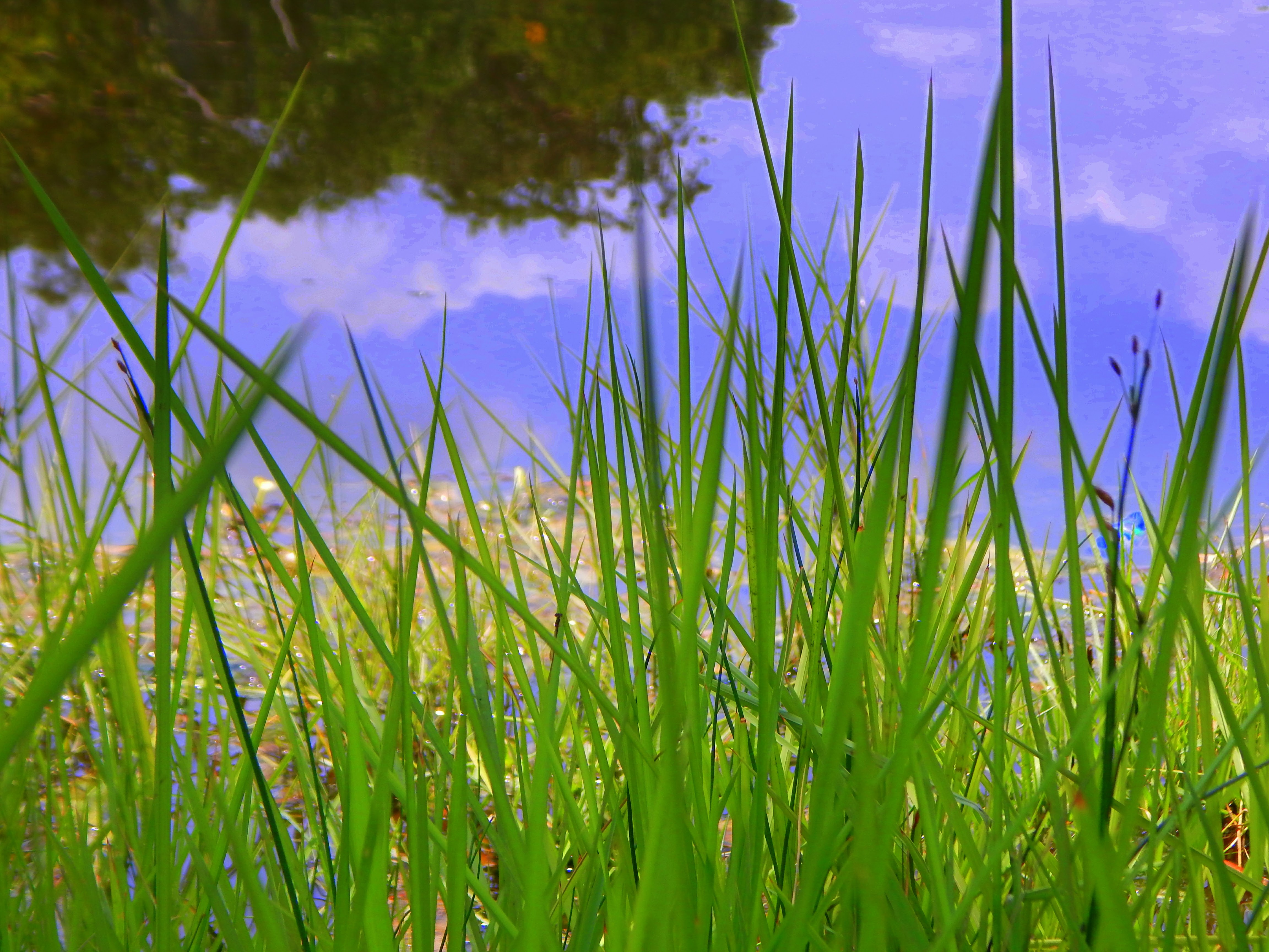 Zoysia matrella is from the kingdom plantae,and belongs to the family poaceae who's genus is Zoysia and its commanly known as siglap Grass.